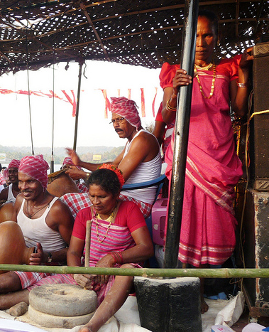 Kubbi people of Goa,western India